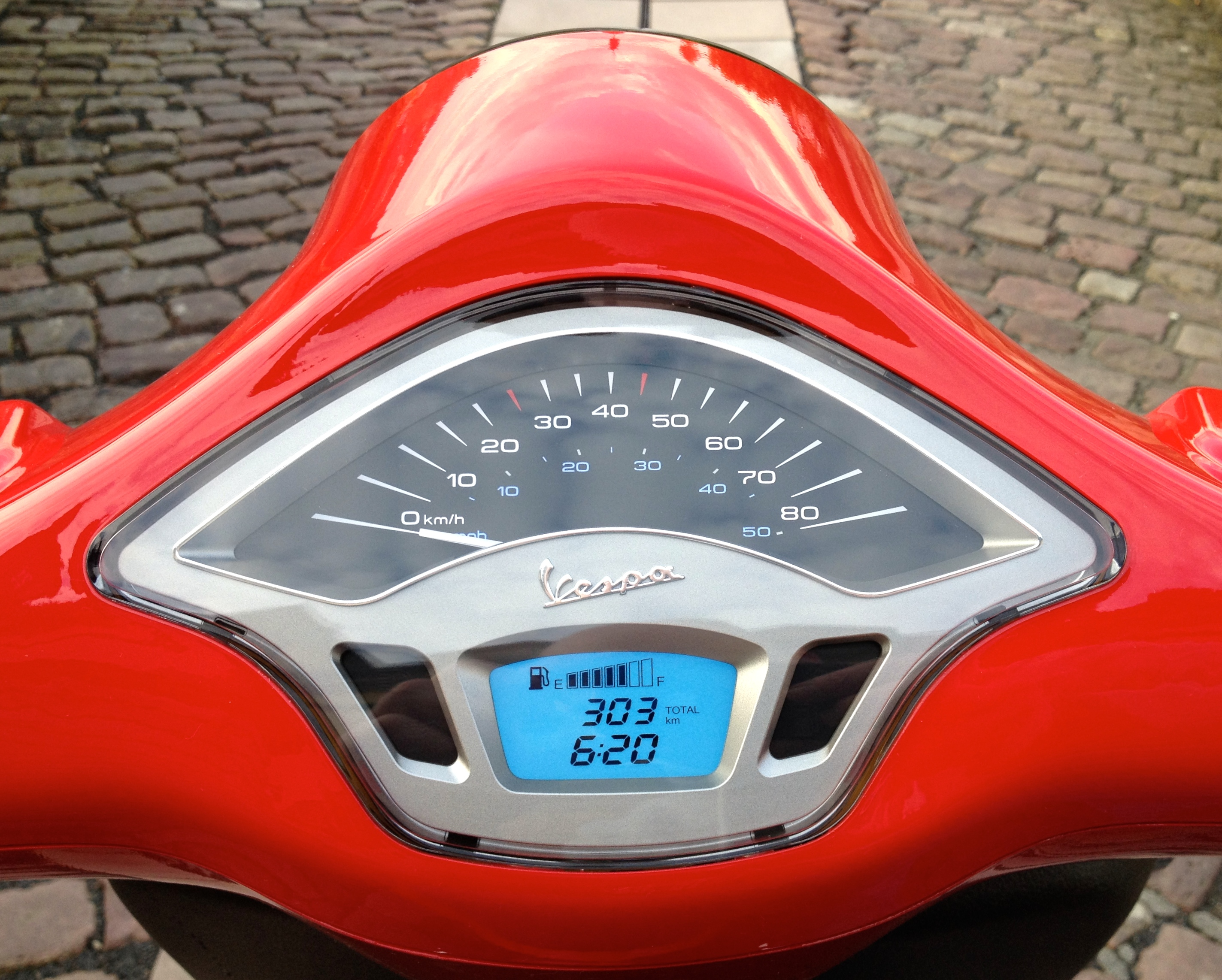 Vespa Primavera 50 4T 4V speedometer